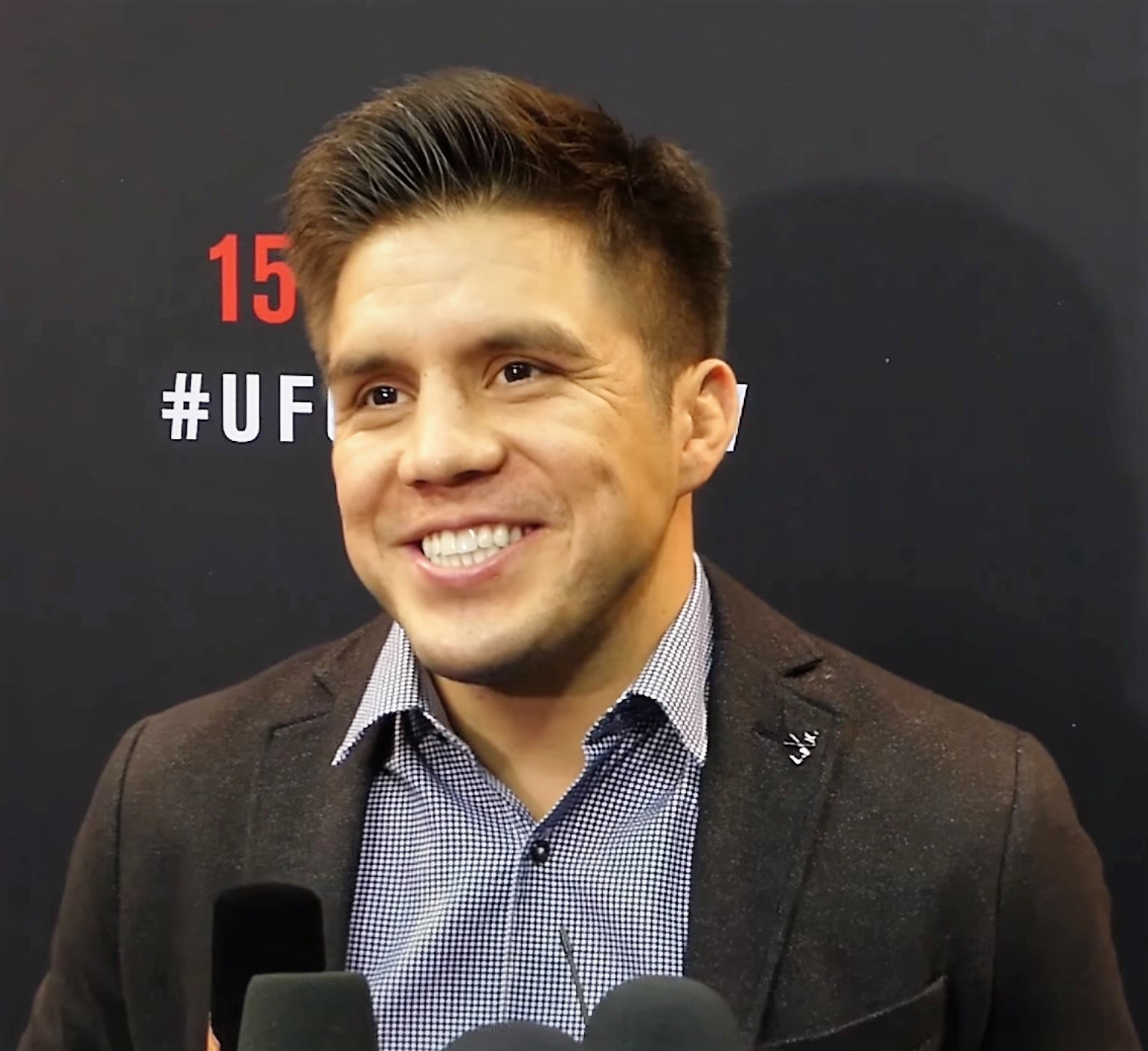 HENRY CEJUDO: AIRPORT LOST MY UFC BELT American mixed martial artist Henry Cejudo. Visit Europe's biggest MMA website Follow us on our Social Media channels: Facebook: Instagram: Twitter